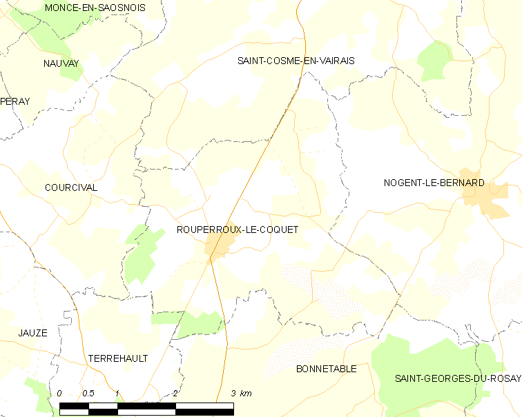 Map of French municipality